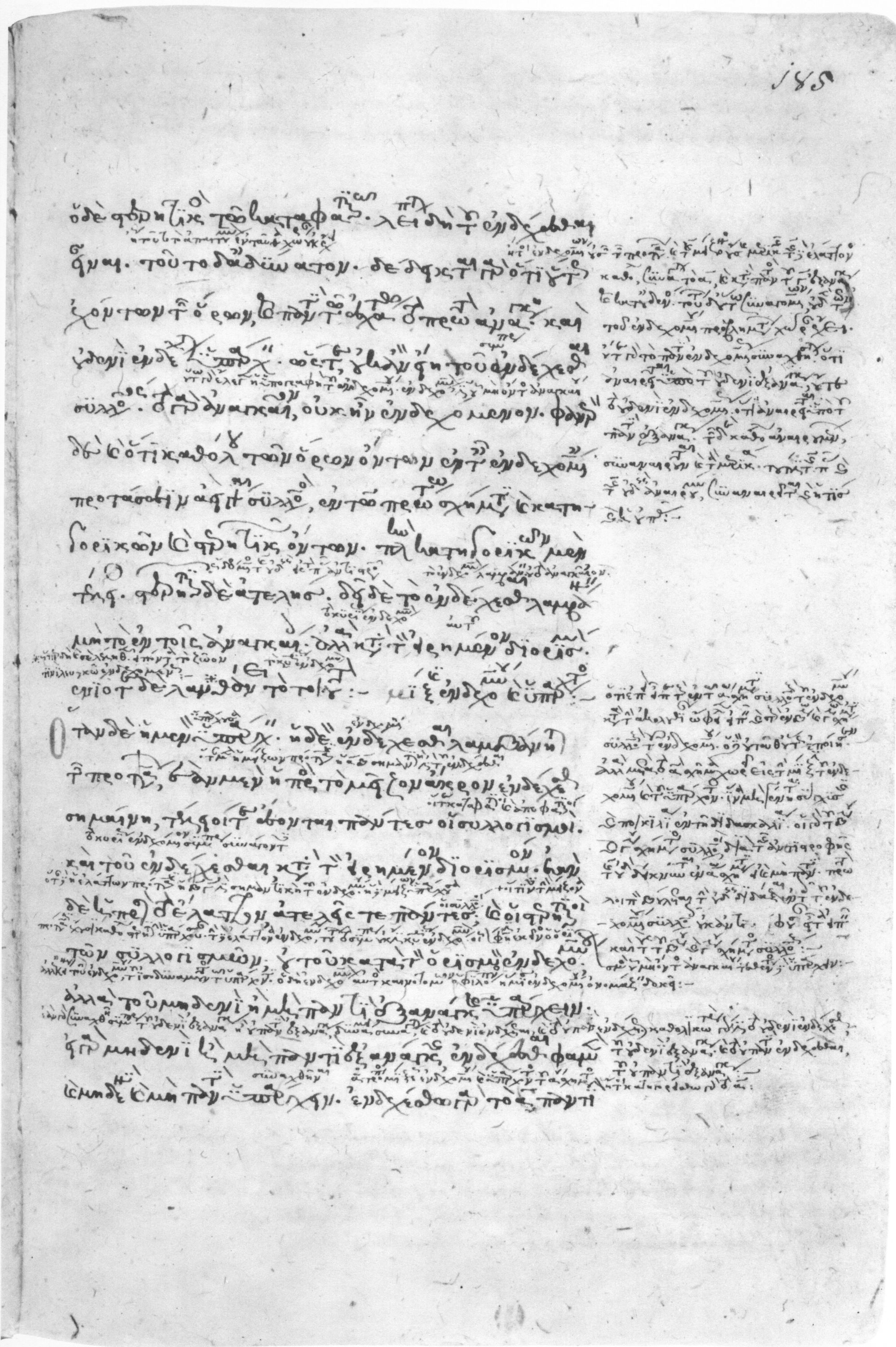 Aristotle, Prior Analytics, with scholia, in ms. Venice, Biblioteca Marciana, Gr. 202, fol. 185r.